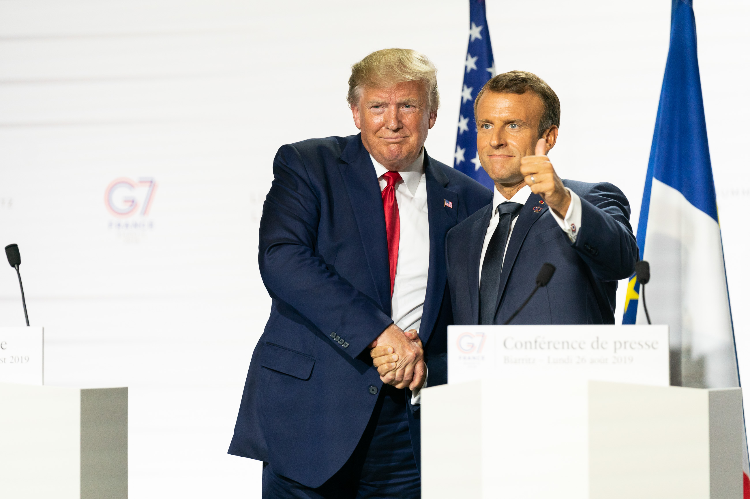 President Donald J. Trump and French President Emmanuel Macron participate in a joint press conference at the Centre de Congrés Bellevue Monday, Aug. 26, 2019, in Biarritz, France, site of the G7 Summit. (Official White House Photo by Shealah Craighead)